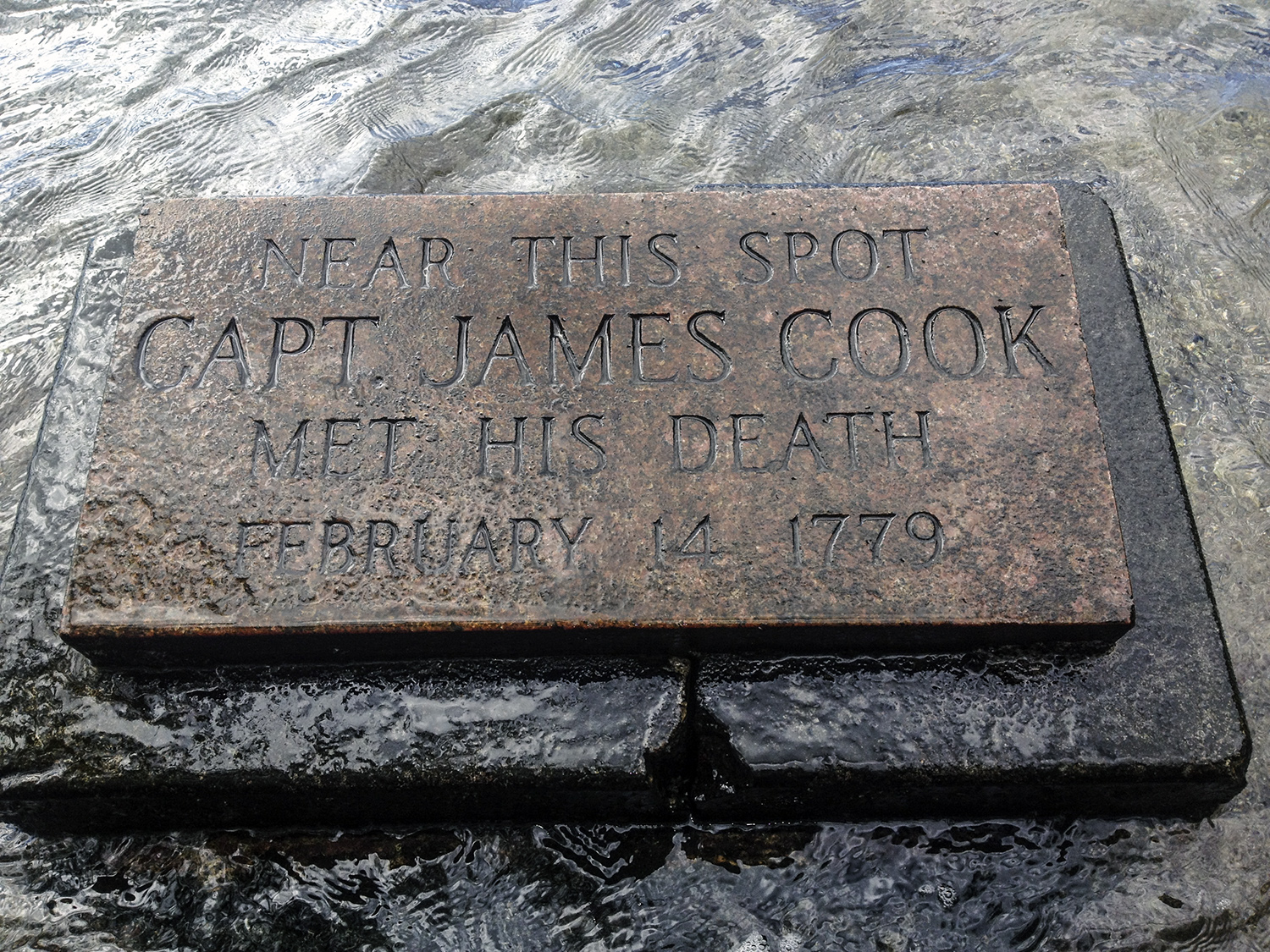 Captain Cook Memorial Site viii